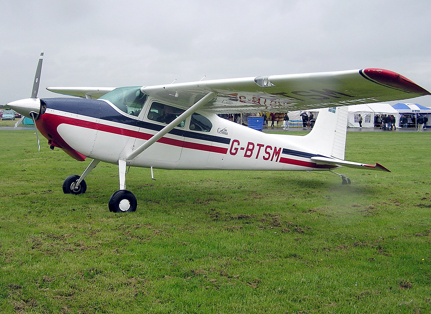 1957 Cessna 180A (G-BTSM) at Hullavington Airfield, Wiltshire, England. Sorry about the raindrop blur under the tail-wheel and under the wing (it was raining). Photographed by Adrian Pingstone in May 2005 and placed in the public domain.